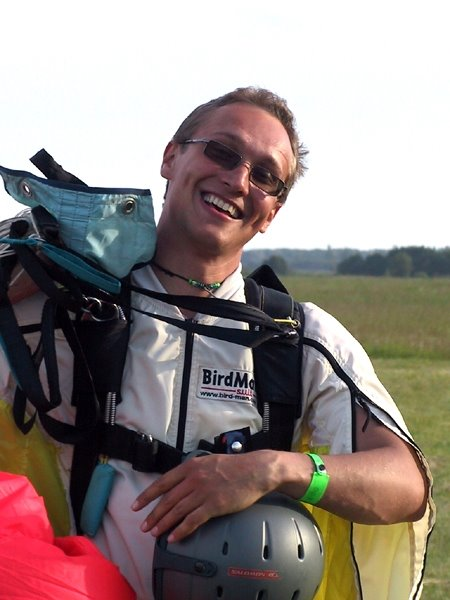 Merlis Nõgene, Estonian ex-journalist and director.